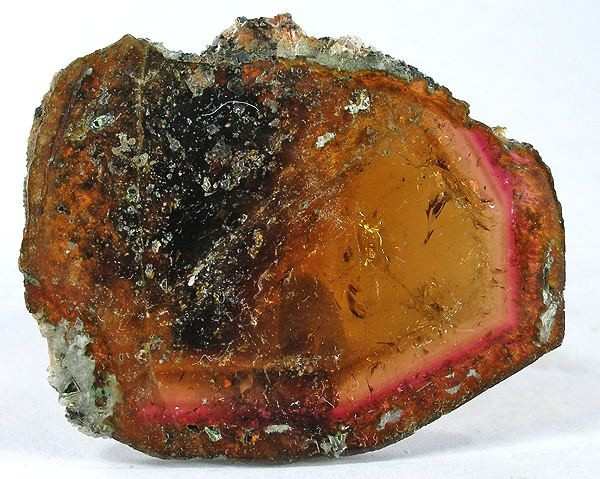 Tourmaline Locality: Ambositra District, Amoron'i Mania Region, Fianarantsoa Province, Madagascar (Locality at ) Size: 6.1 x 4.4 x 0.3 cm. A slice of tourmaline from Madagascar, polished on both sides, combining a rich, deep golden color with a band of intense scarlet.